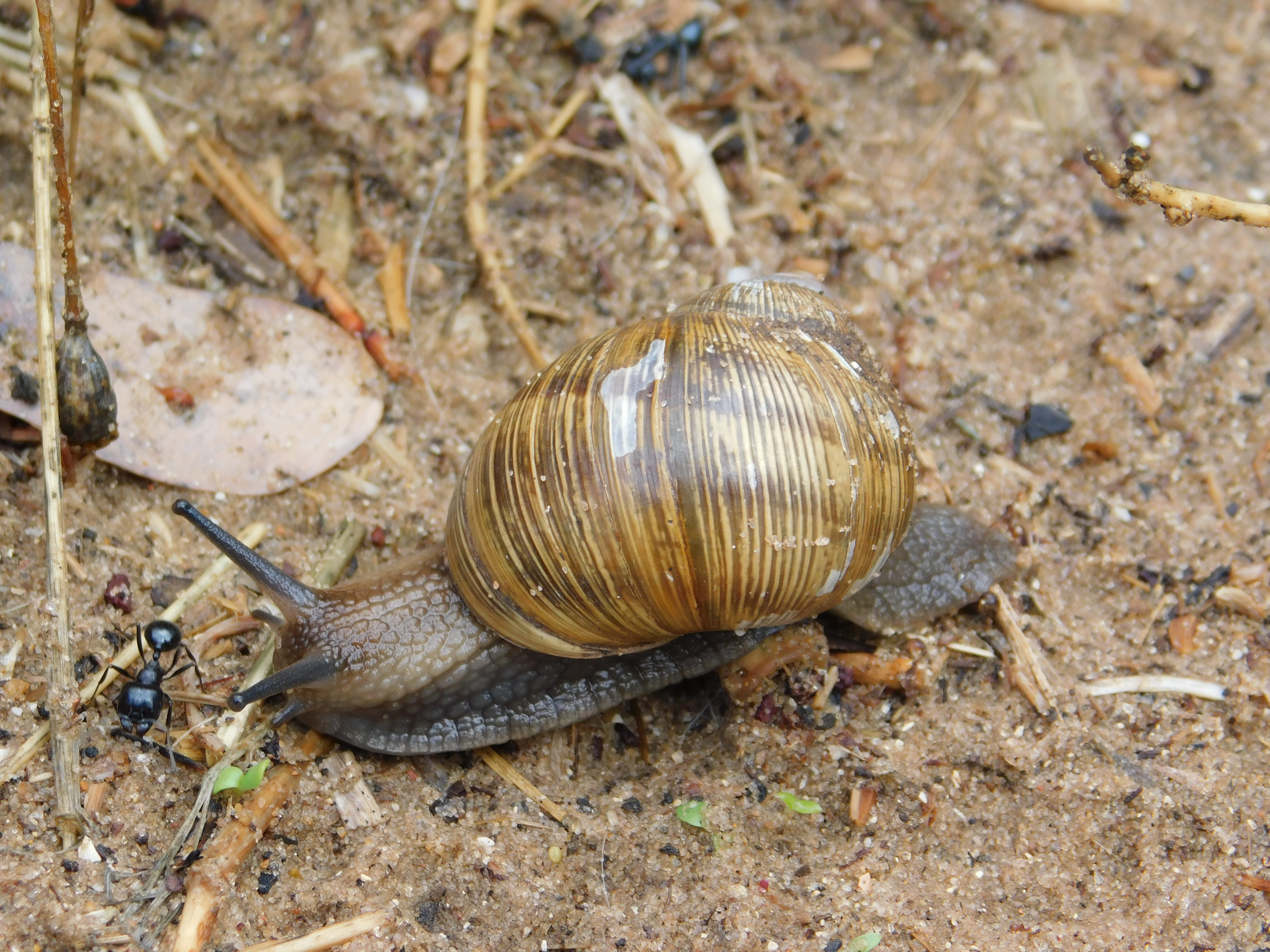 Helix engaddensis, active after a rain, in Tel-Aviv, Israel